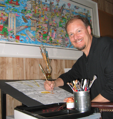 Charles Fazzino, American/Finnish artist known for 3-D Pop art style, in his New York studio.